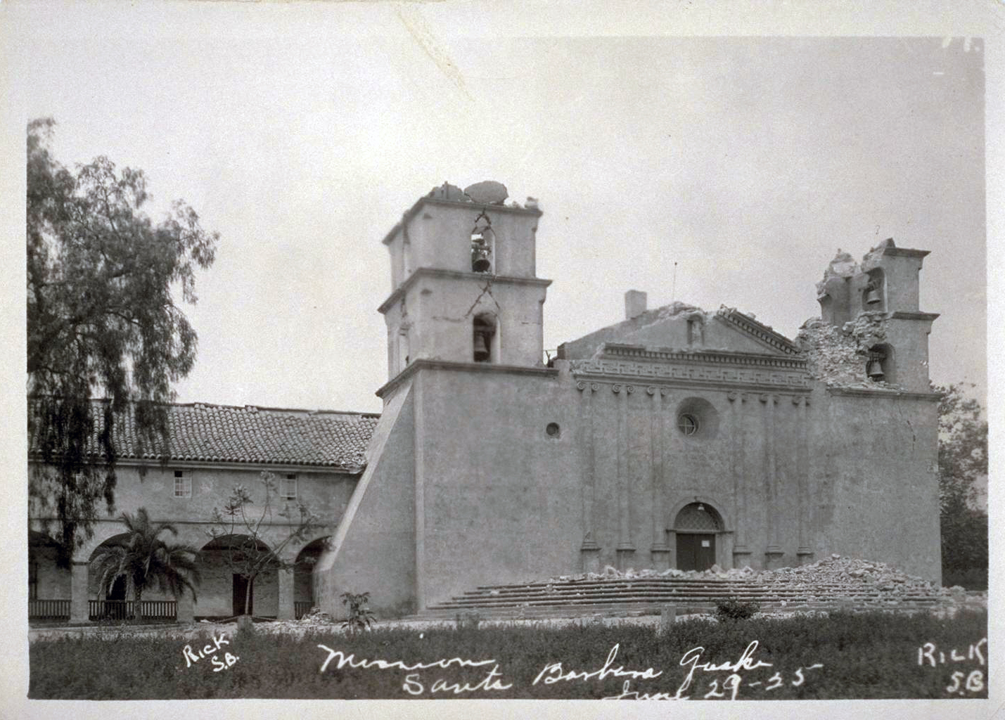 Mission Santa Barbara, after the Santa Barbara earthquake, 29 June 1925